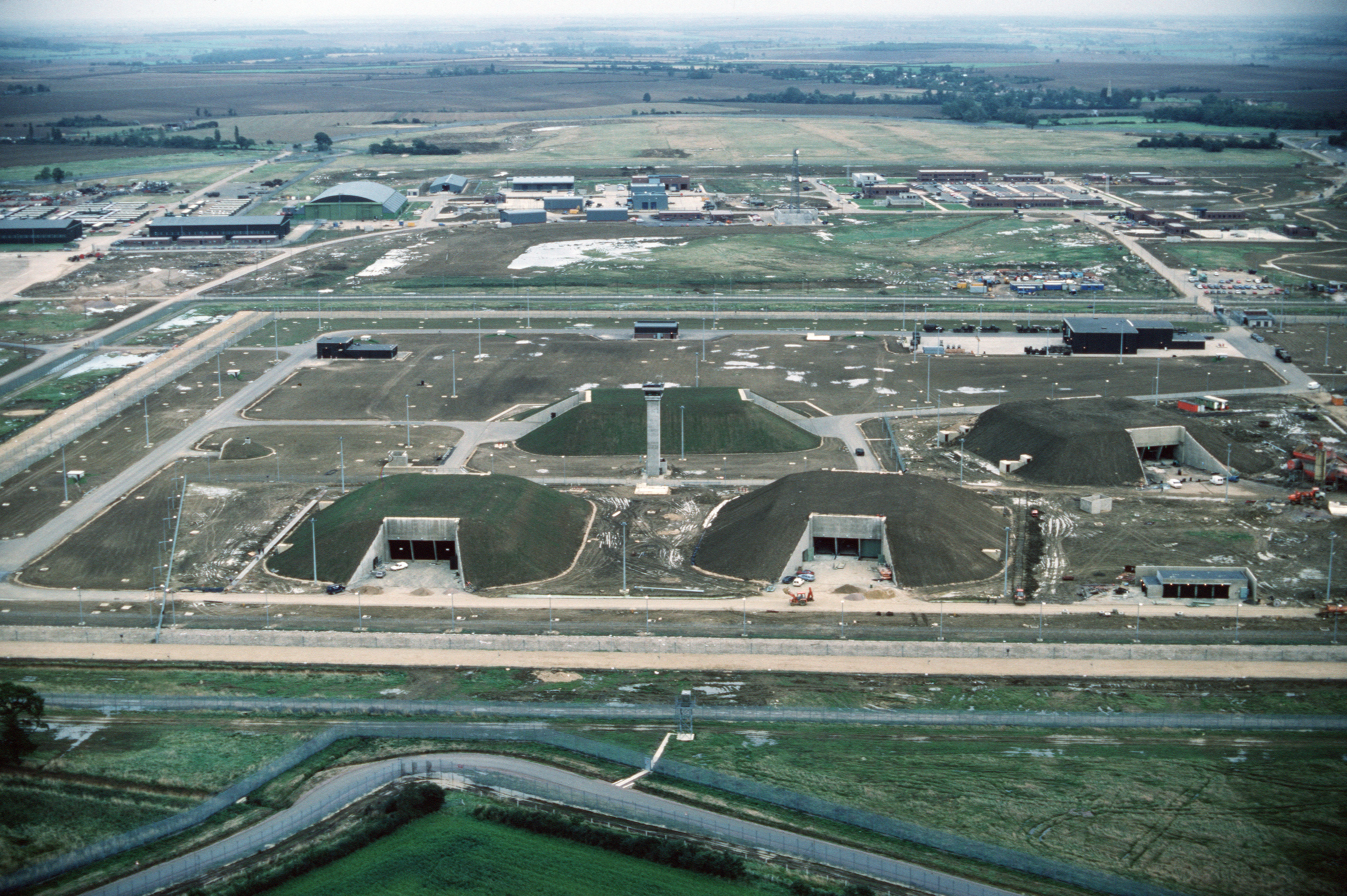 An aerial view of the ground launched cruise missile base at Royal Air Force Molesworth, home of the 303rd Tactical Missile Wing.